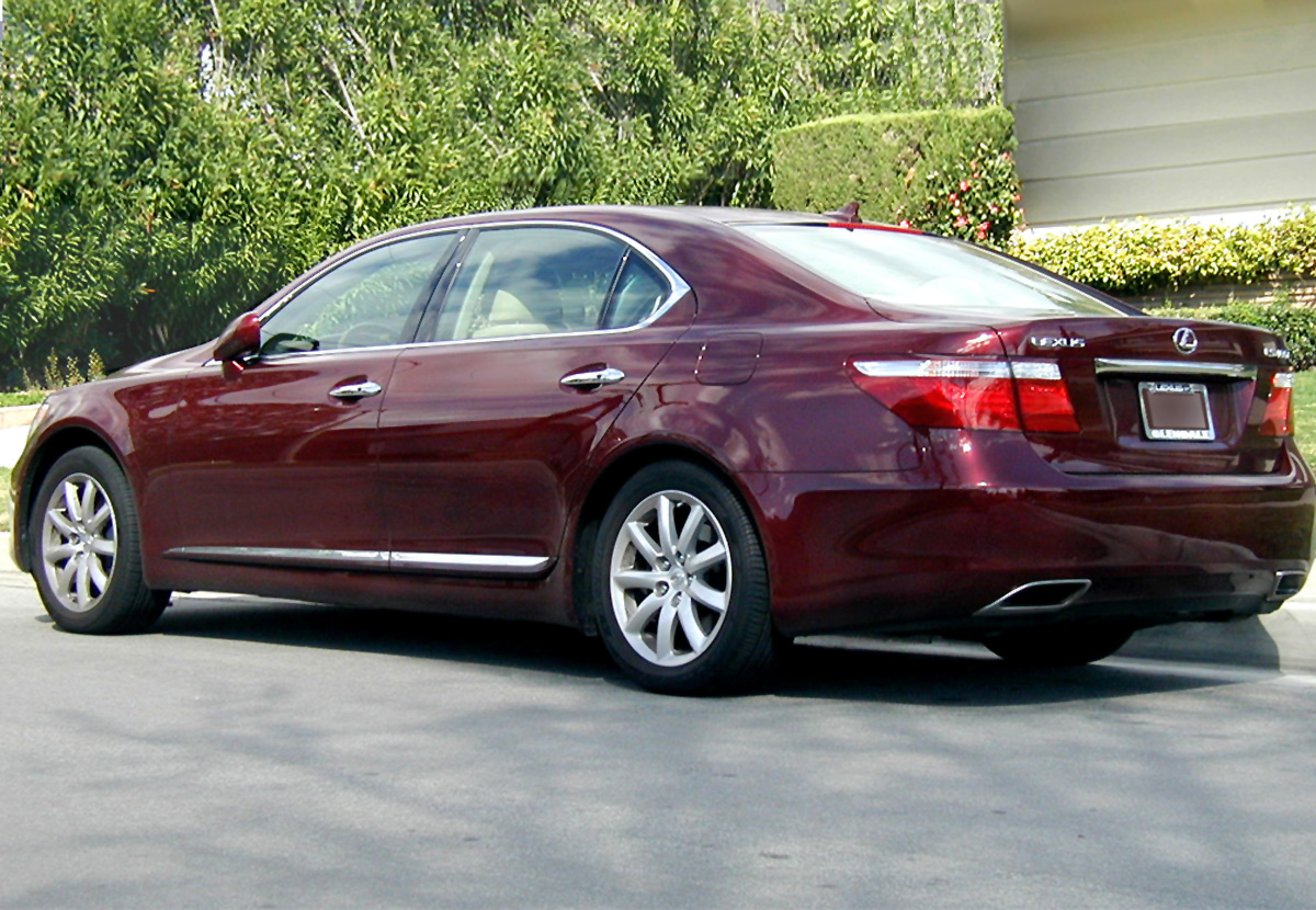 The 2007 Lexus LS 460 L, the long wheelbase version of the LS Series.